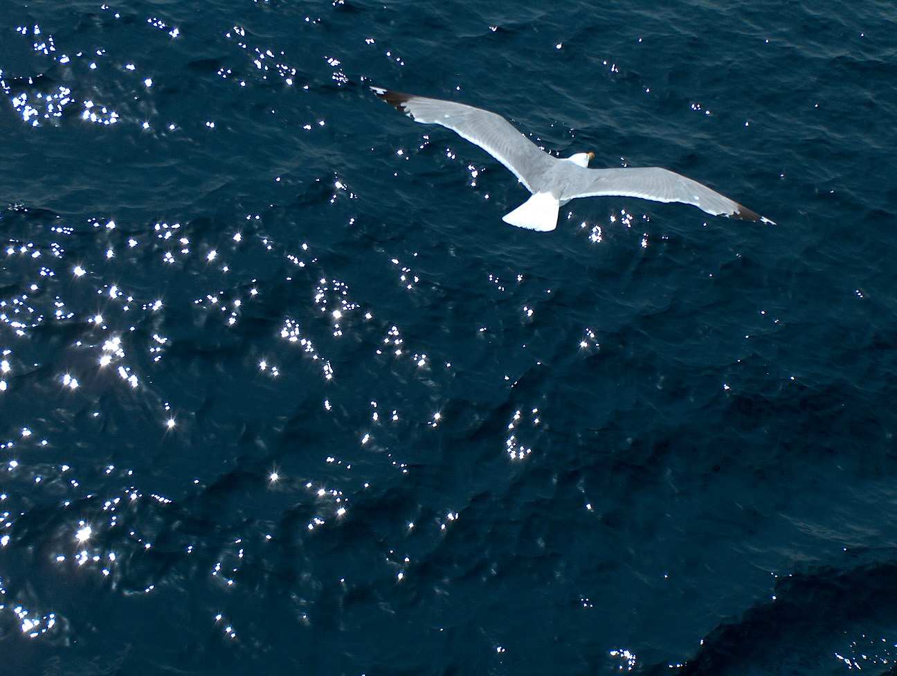 Yellow-legged Gull Flight